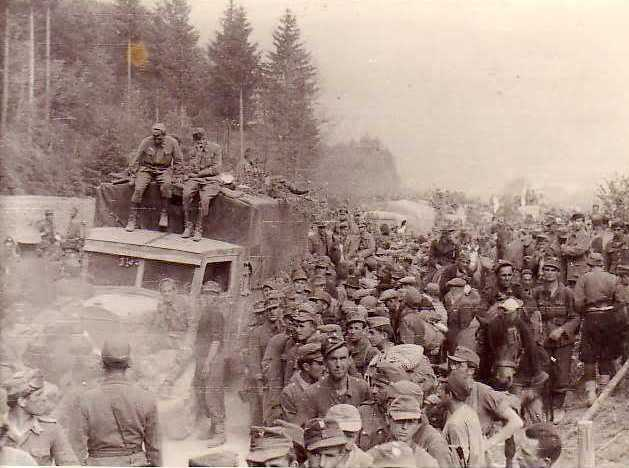 retreat of Independent State of Croatia's militar in 1945, Austria/Slovenia